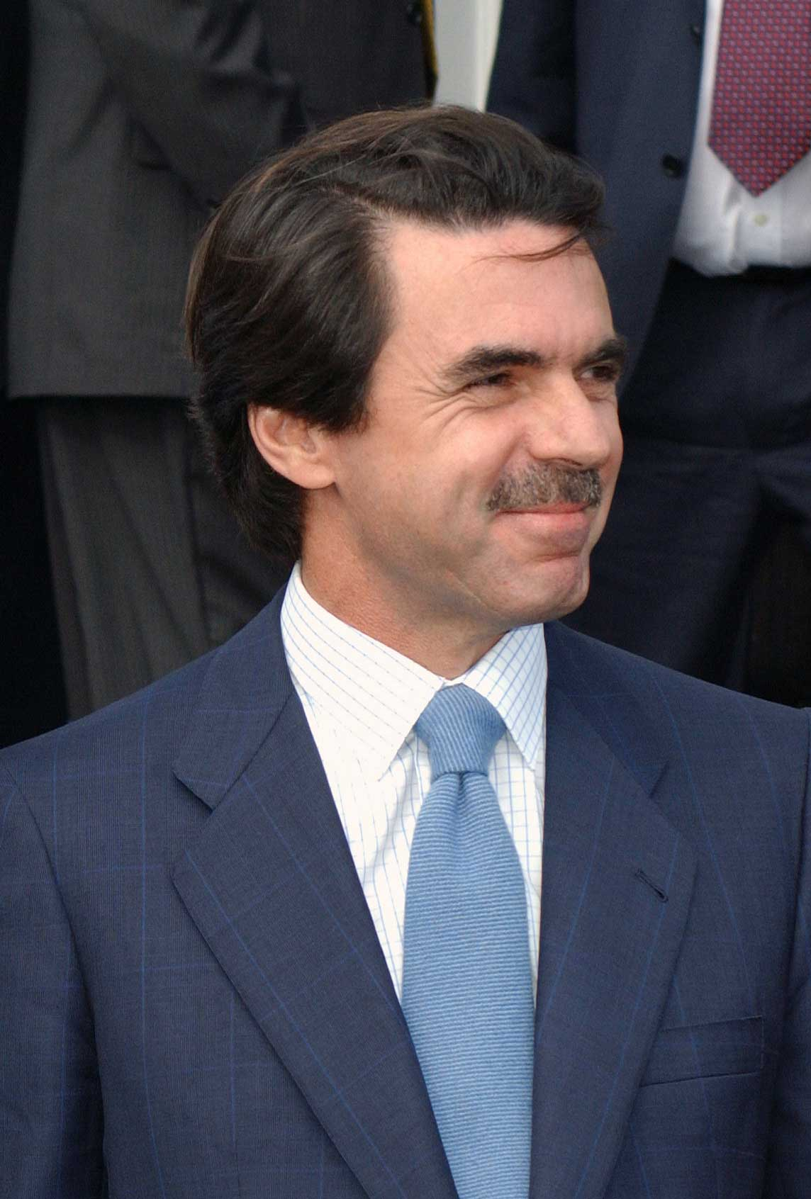 Spanish Prime Minister Jose Maria Aznar during emergency summit meeting at Lajes Field, Azores, to discuss the possibilities of war in Iraq.